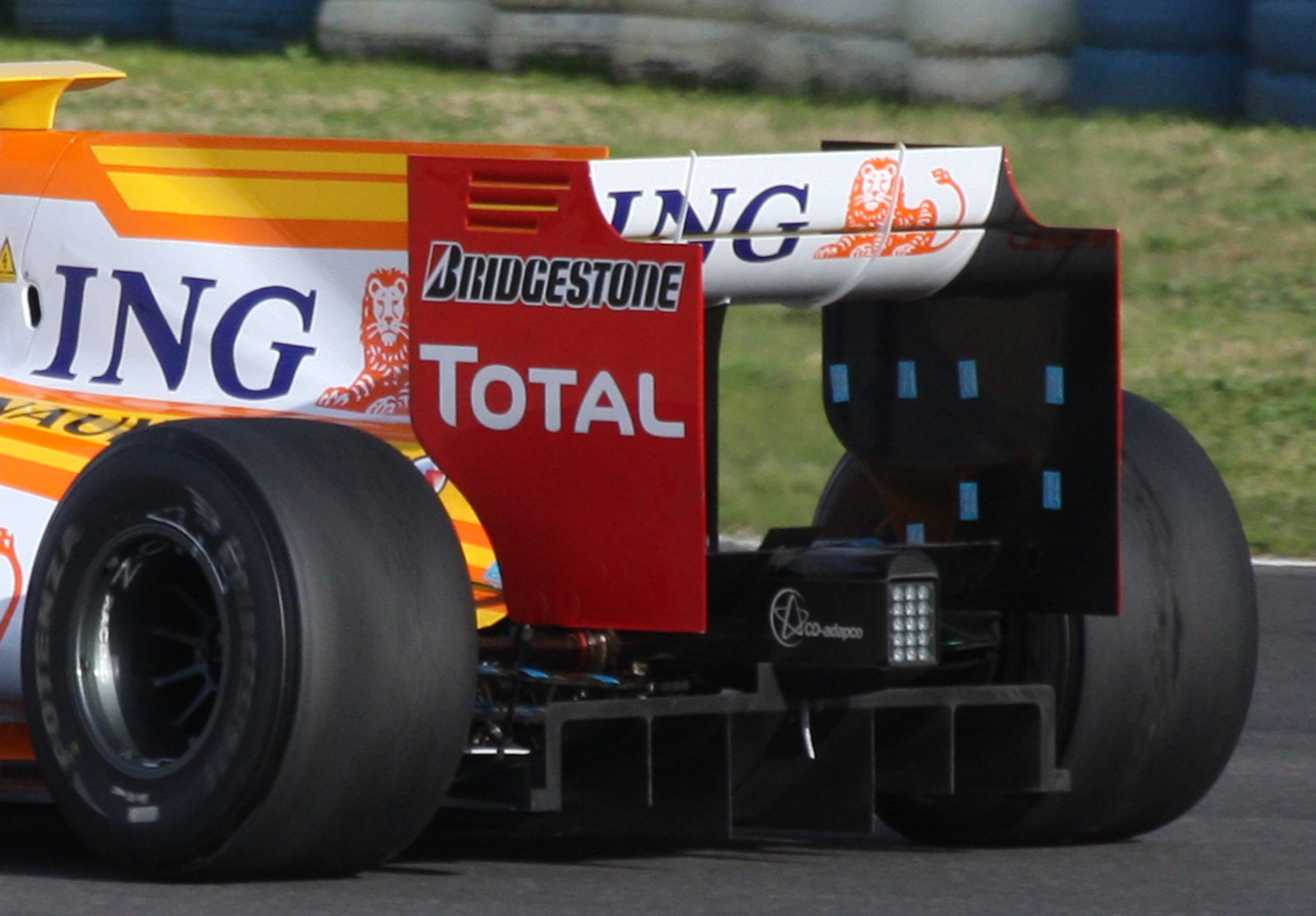 Renault R29 (detail), F1 testing session, Jerez 10-Feb-2009